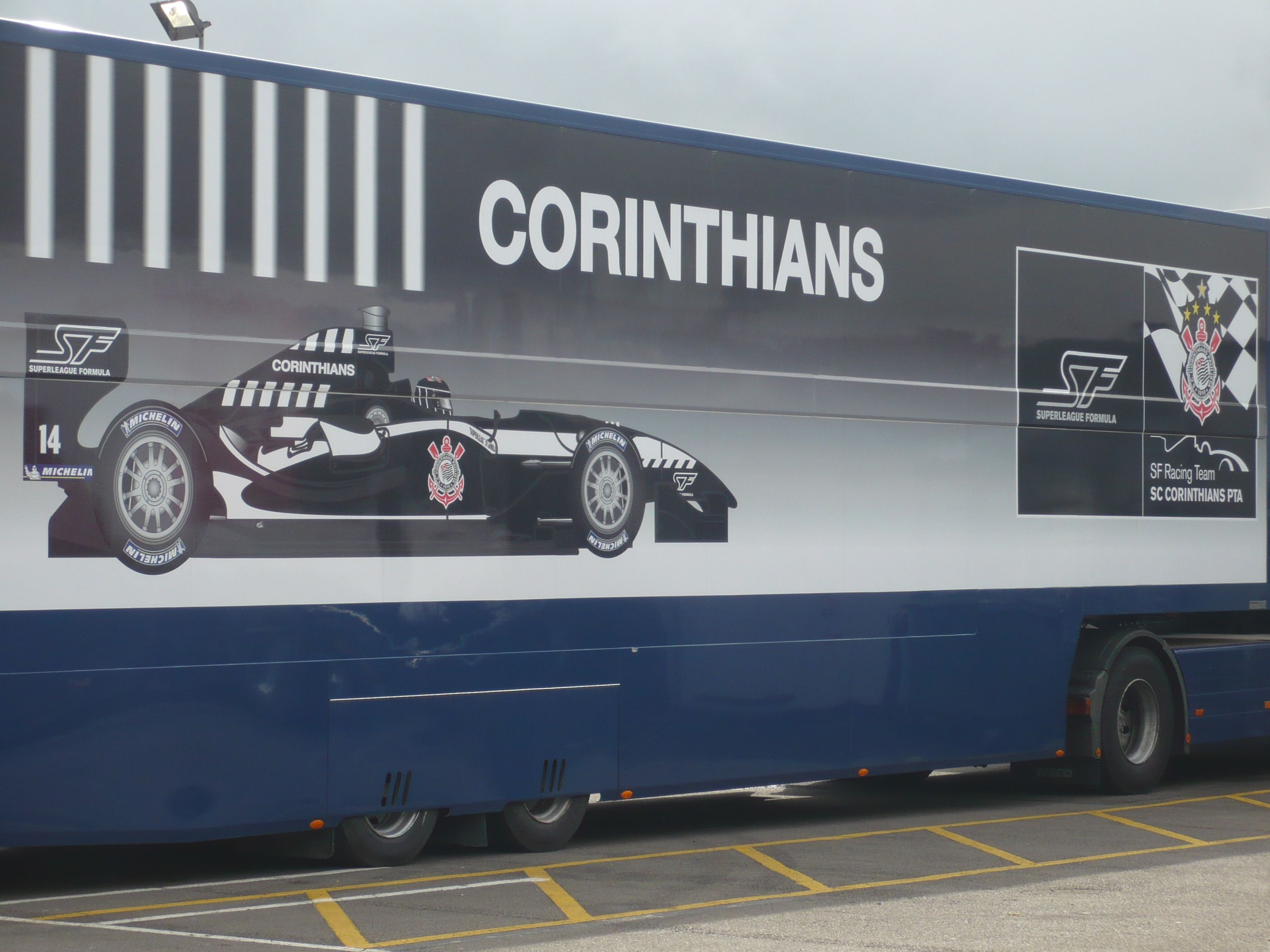 SC Corinthians team truck in the paddock. Photo taken by me at Silverstone's 2010 SF round.